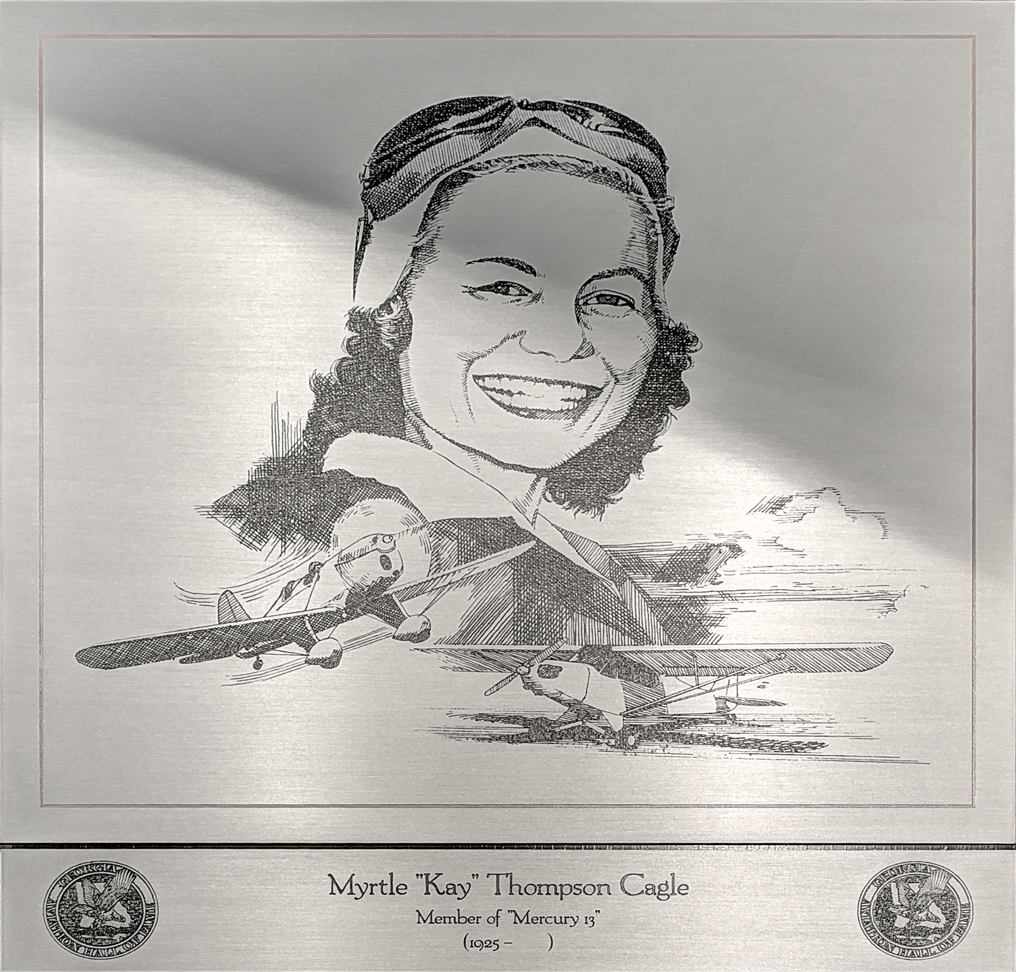 Myrtle "Kay" Thompson Cagle (1925 - 2020)